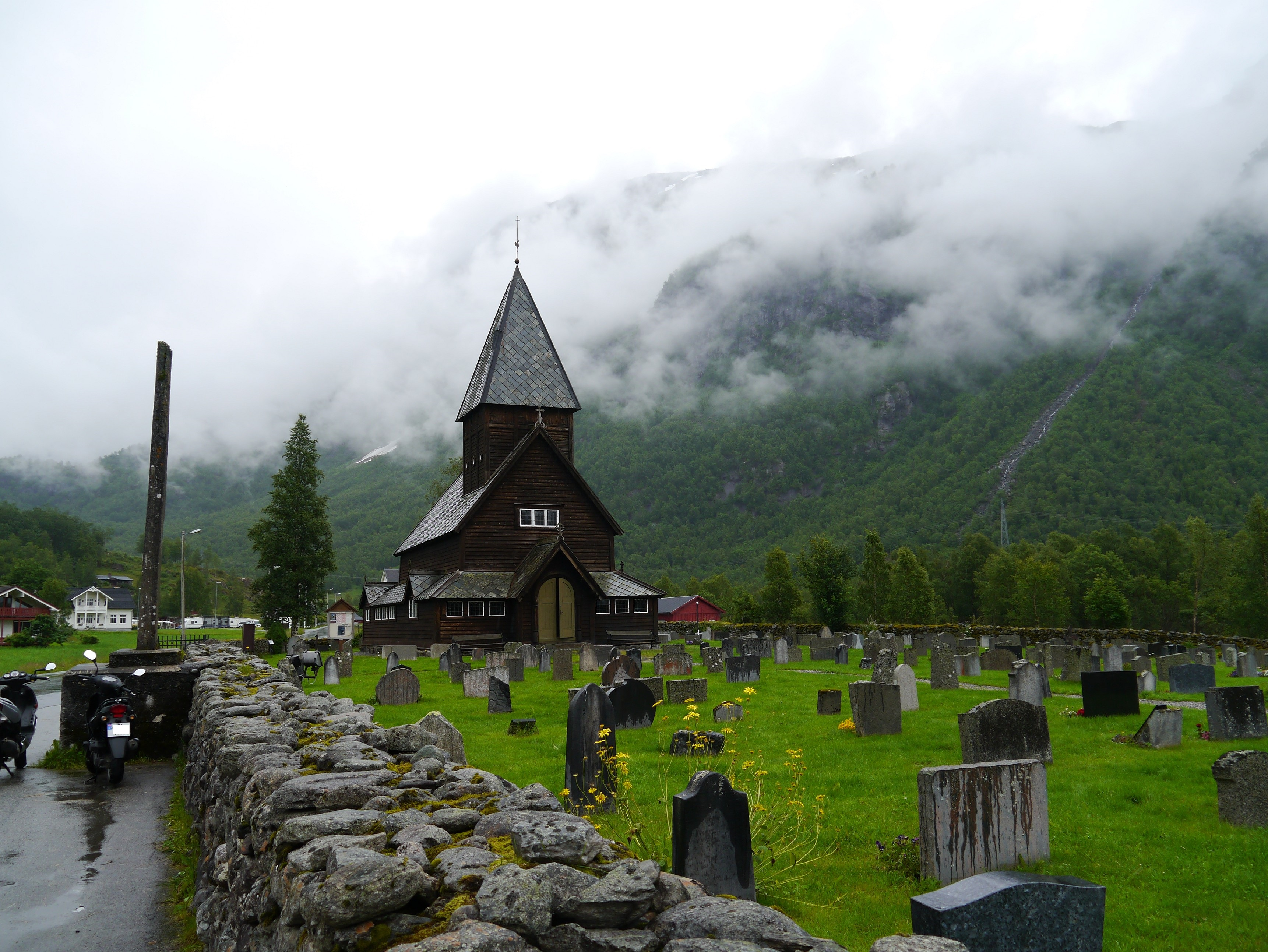 Röldal Stave Church, Odda, Hordaland County, Western Norway